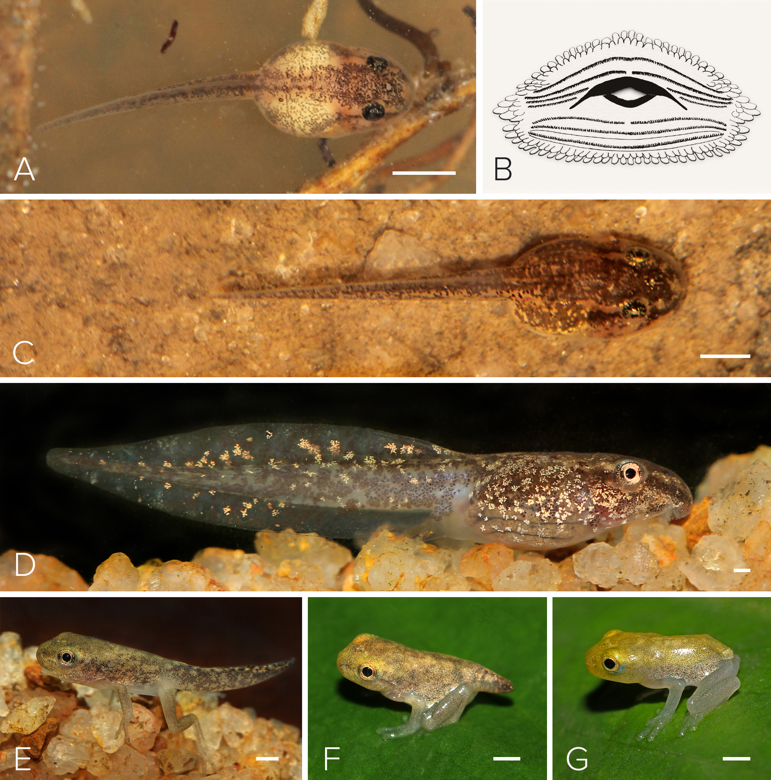 Stages (A) 28, (B) illustration of the oral apparatus (LTRF: 4(2-4)/3(1)). Image credit: Robin K. Abraham, (C) 29, (D) 30 (E) 42 (F) 44 and (G) 45. Bar represents 1 mm. Image credit: Jobin Mathew.